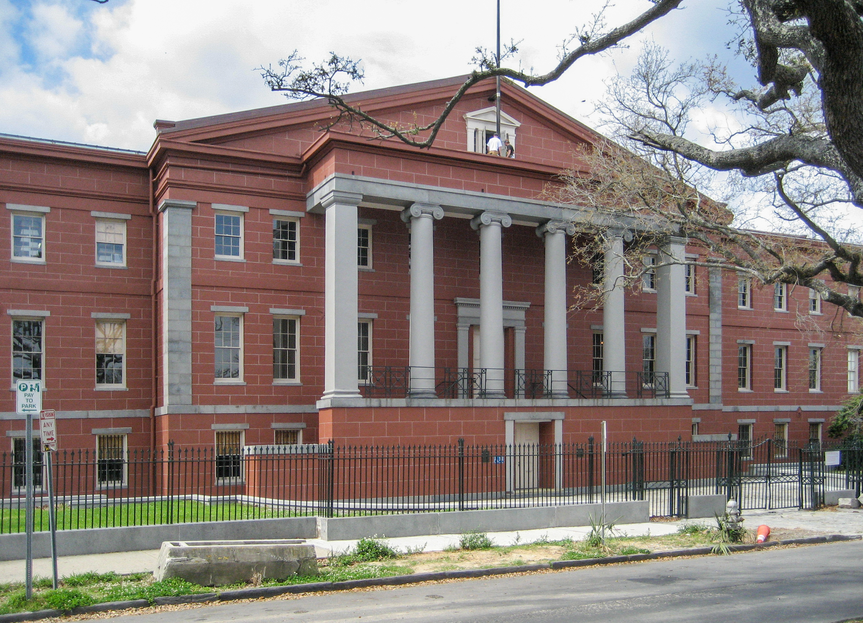 Old US Mint building on Esplanade Avenue, New Orleans. Still closed undergoing renovations since damage from Hurricane Katrina in 2005; workers seen at flagpole.